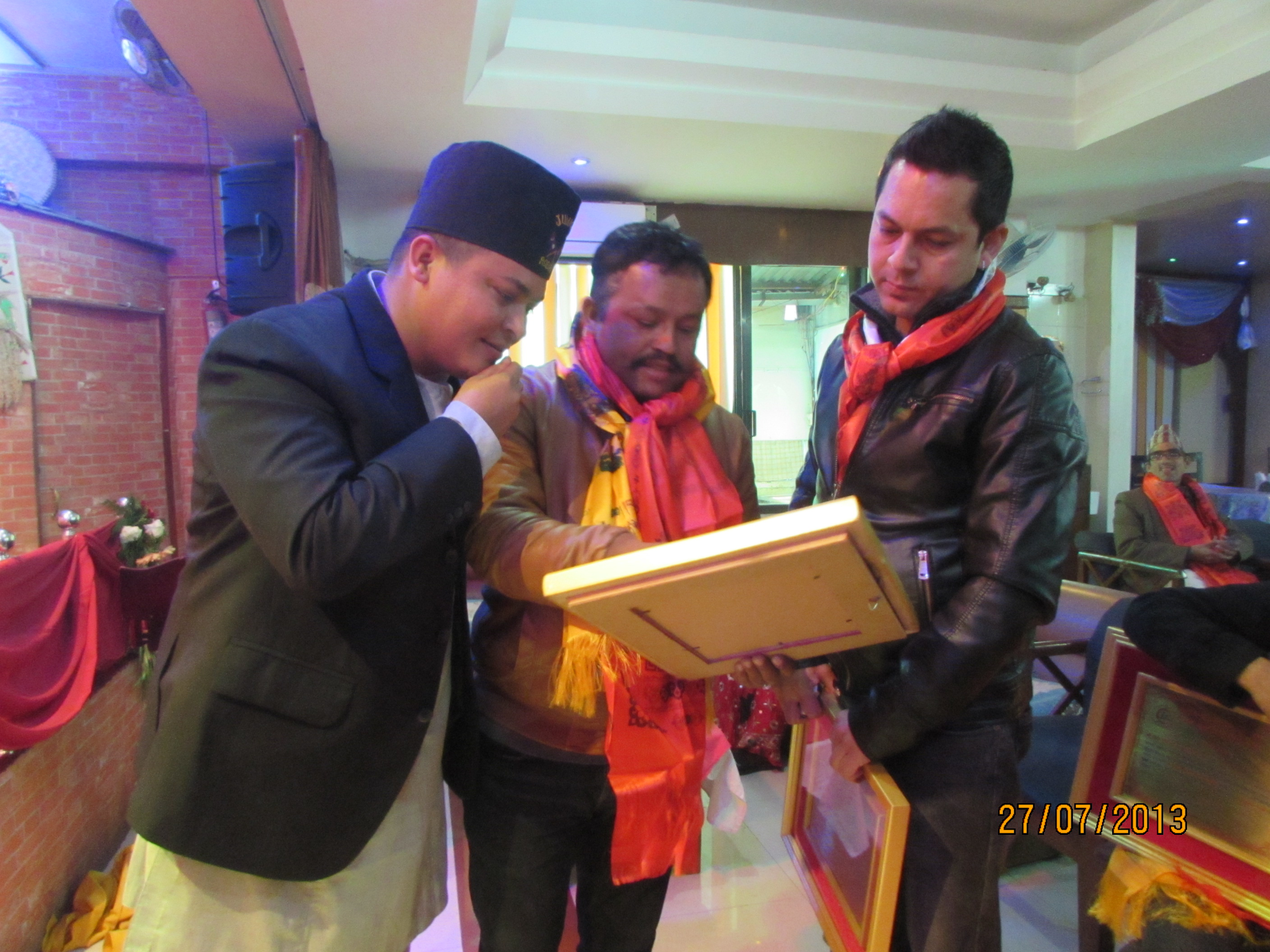 program